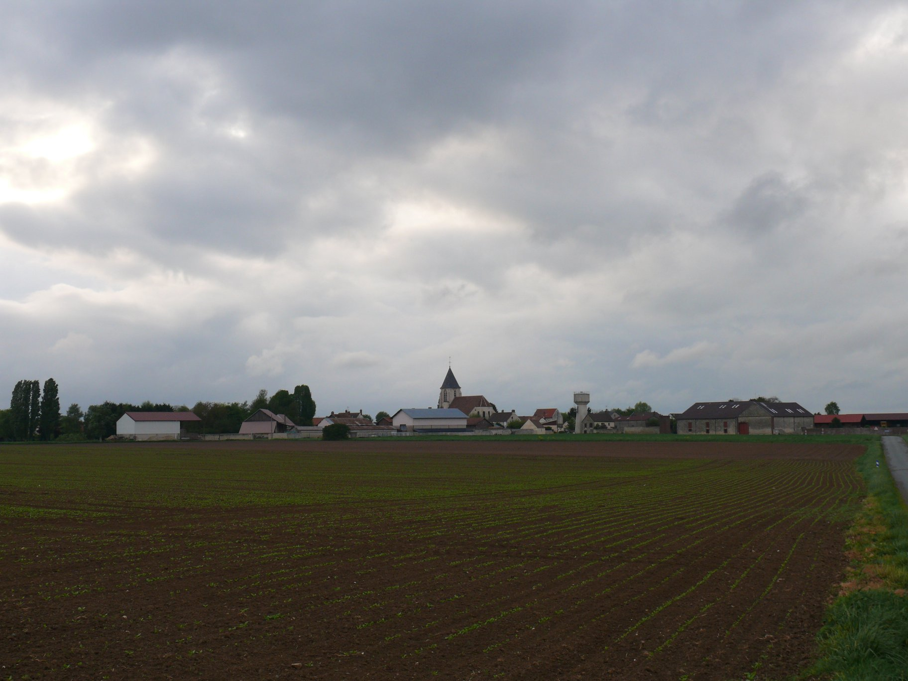 Saint-Peter-and-Paul's church of Silly-le-Long (Oise, Picardie, France).